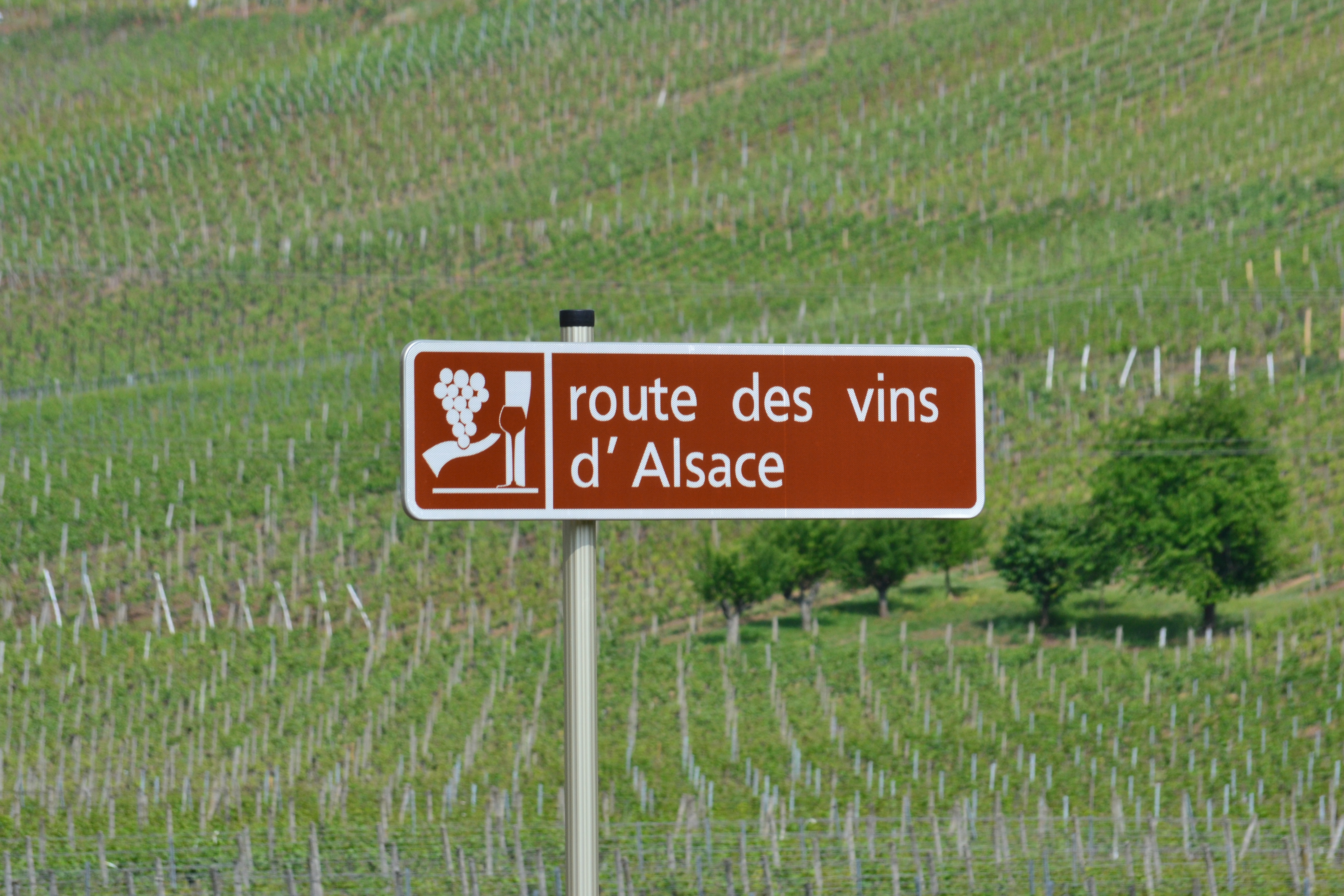 Touristic road sign "Route des Vins d'Alsace" (Wine Road of Alsace)